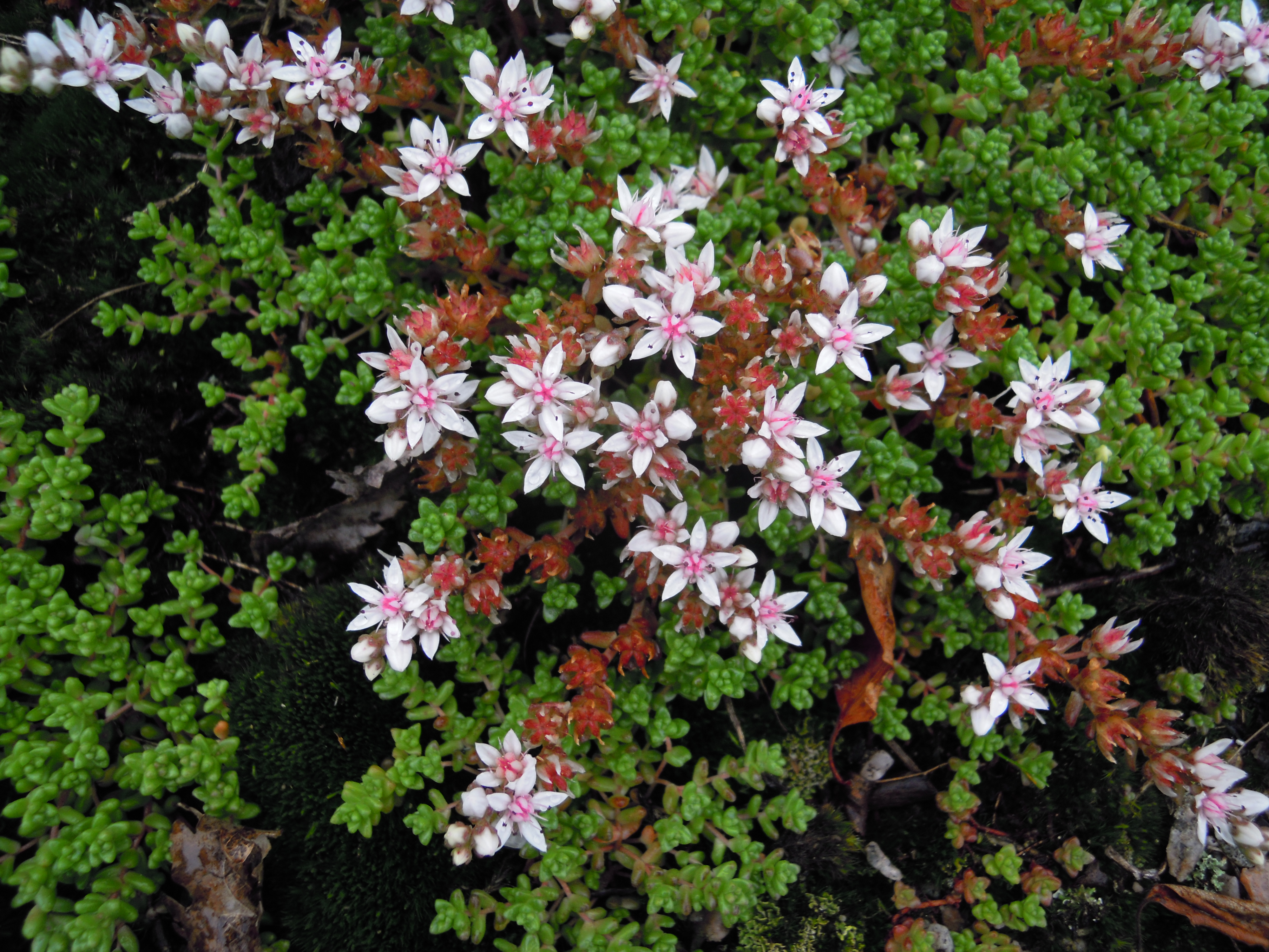 Stonecrop - Sedum anglicum, near Mandal, Norway